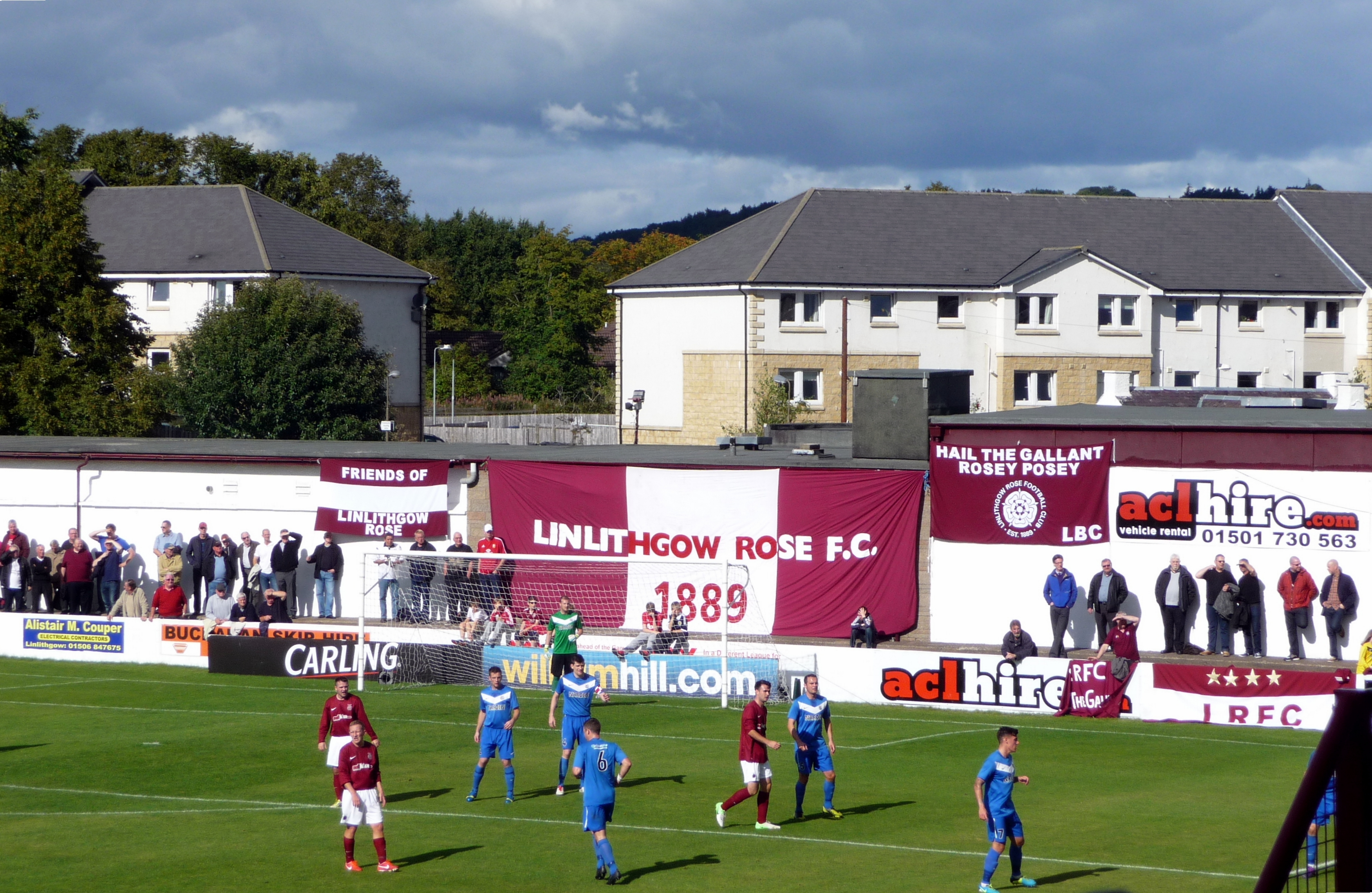 ...that's what it says on the banner behind the goal